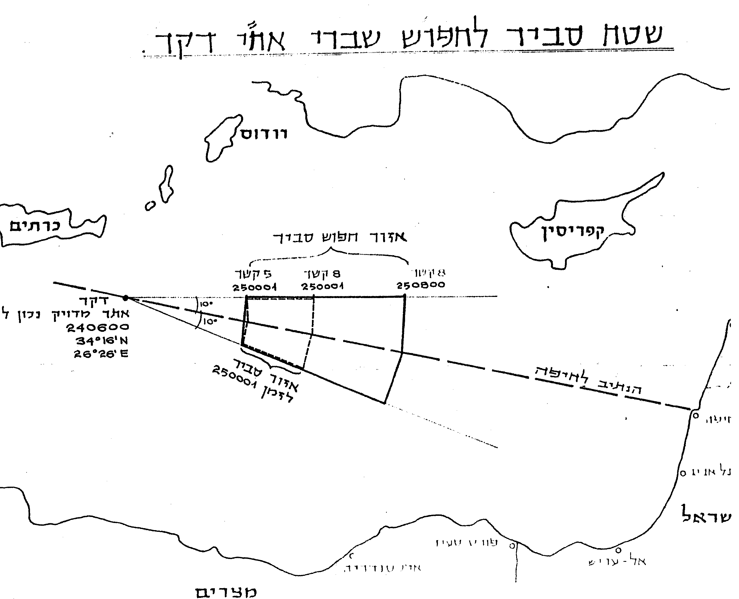 Suggested search area for lost IN sub Dakar